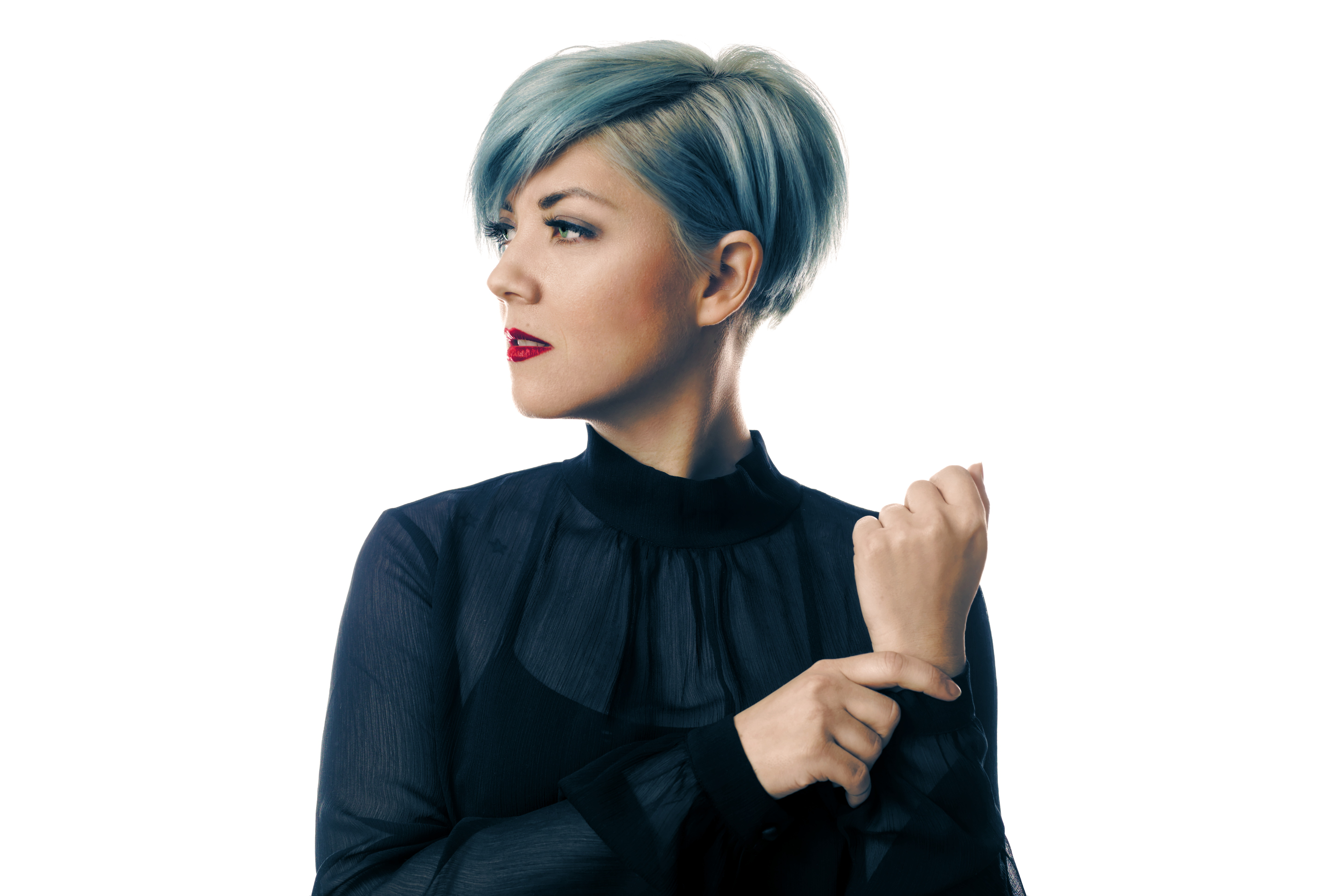 Austrian singer, songwriter and producer PAENDA, (c) Patrick Muennich